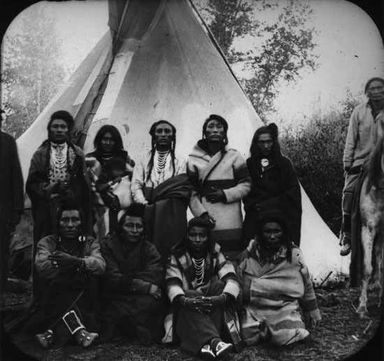 Crow Tribe